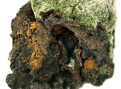 Jamesite Locality: Tsumeb Mine (Tsumcorp Mine), Tsumeb, Otjikoto (Oshikoto) Region, Namibia (Locality at ) Size: 4.3 x 3.5 x 2.8 cm. A specimen rich with small red microcrystals of the rare arsenate Jamesite, from the type locality, in veins mixed with duftite and on contrasting white dolomite.